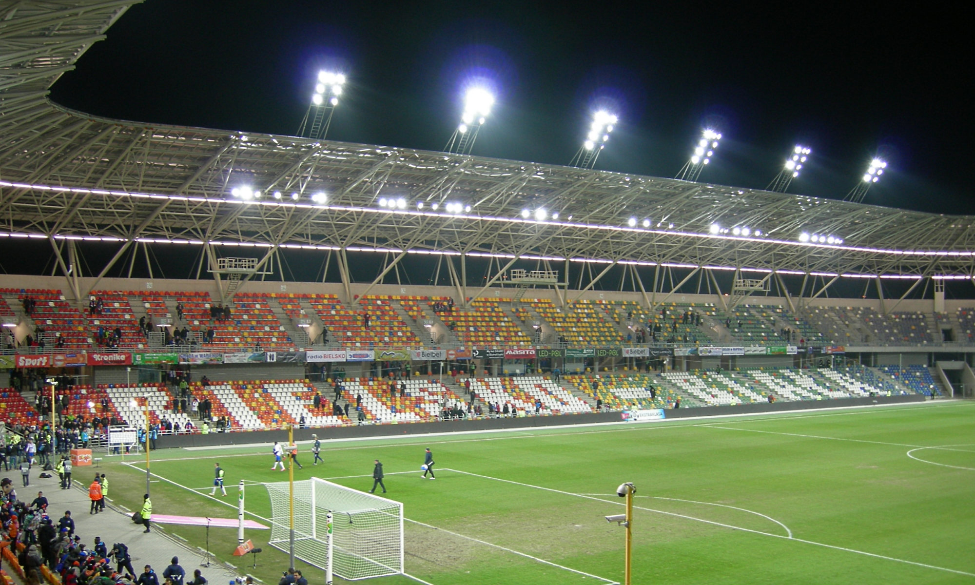 Stadion Miejski in Bielsko-Biała – eastern stand – 20 February 2015.